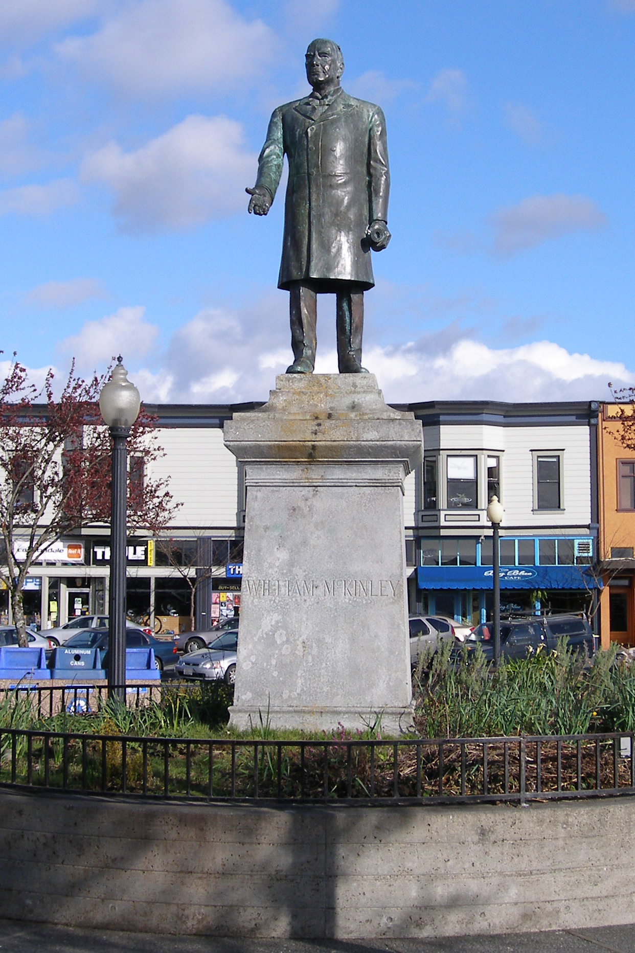 Bronze statue of President William McKinley sculpted by Haig Patigian (1906), located on Arcata Plaza in Arcata, California.